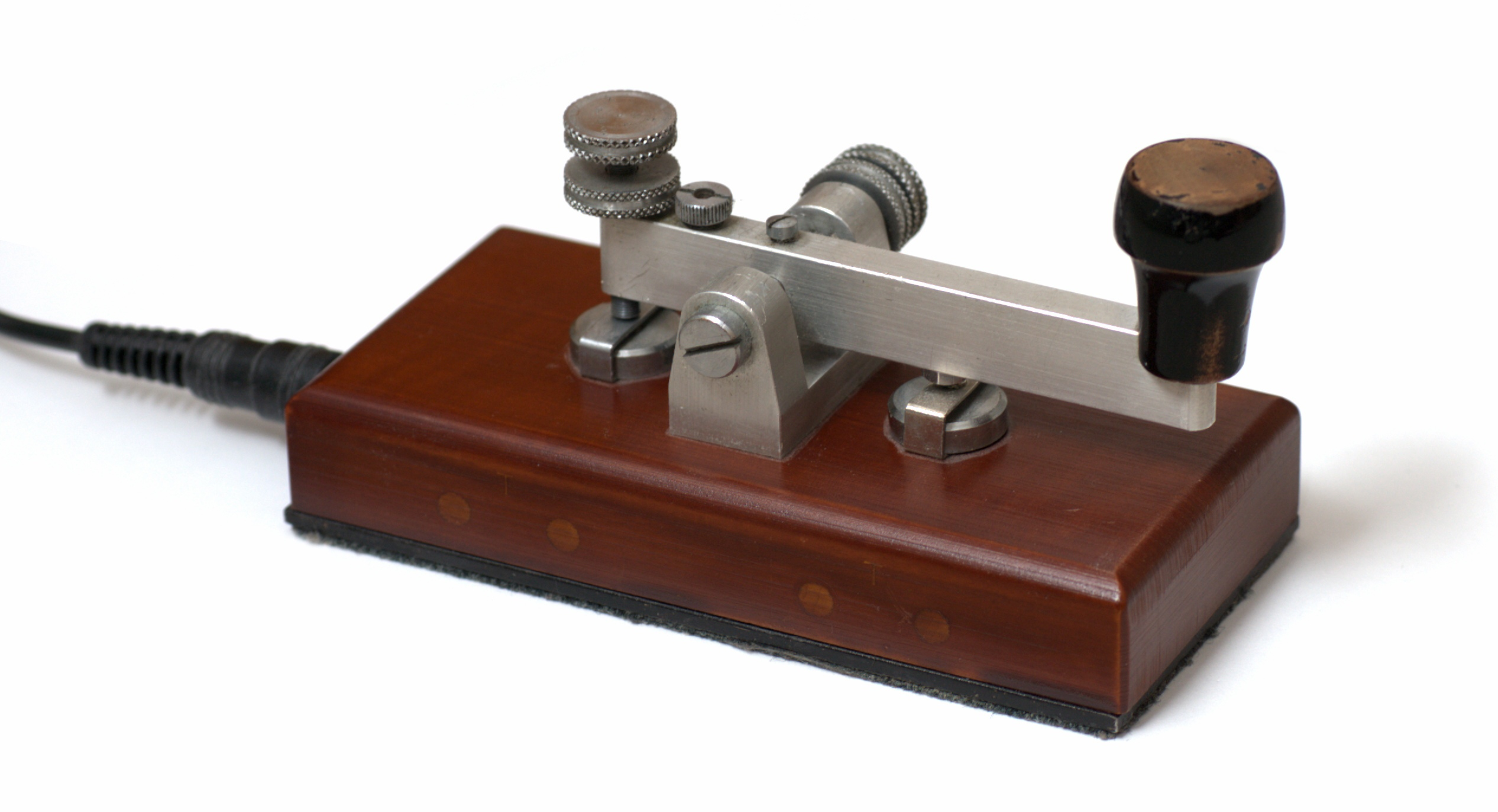 Telegraph Key